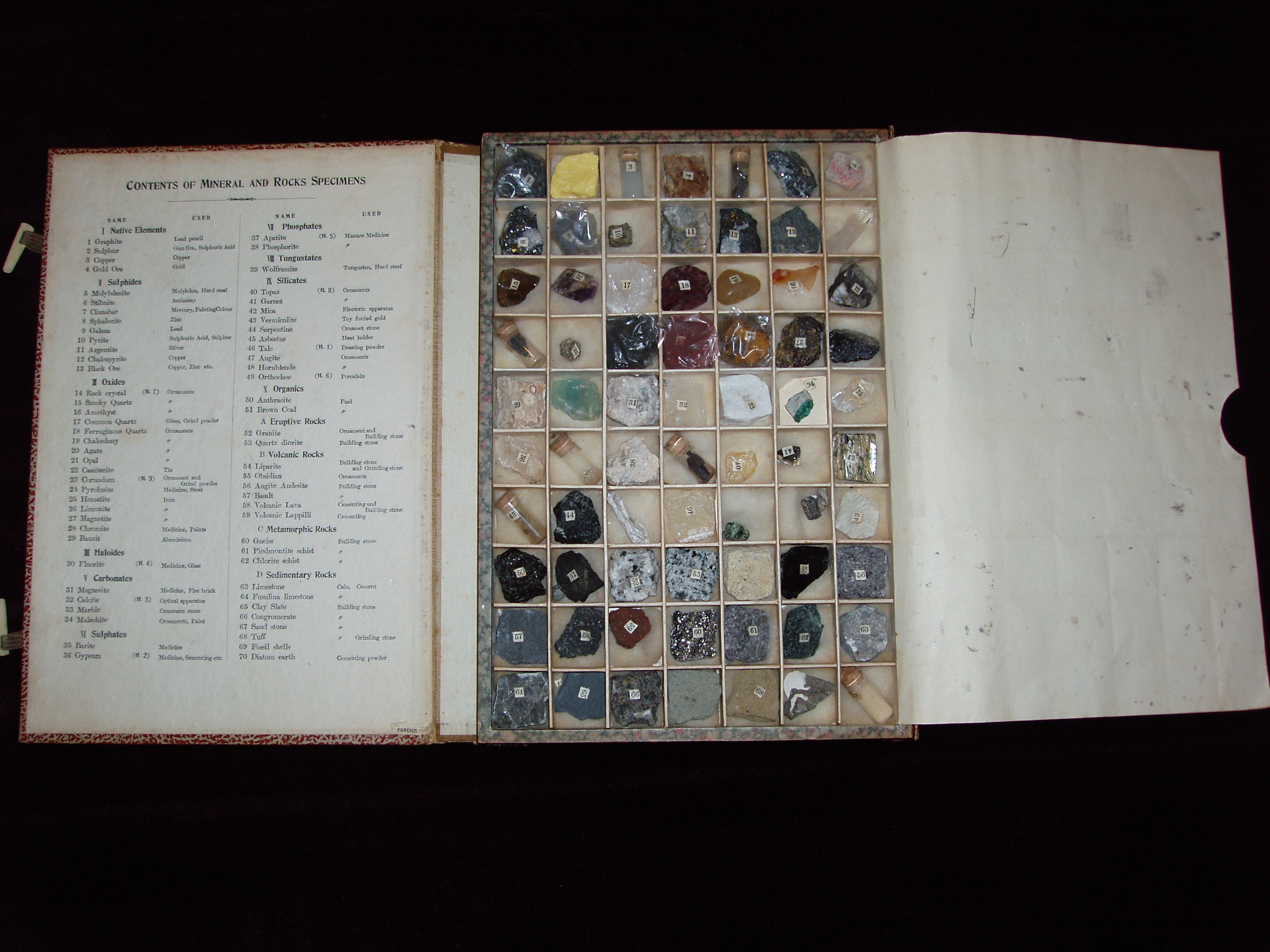 SchoolMineralogyCollection